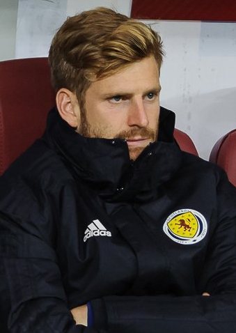 Scottish footballer Stuart Armstrong on 10 October 2019, during the 2020 UEFA European Championship qualifying match between Scotland and Russia in Moscow.